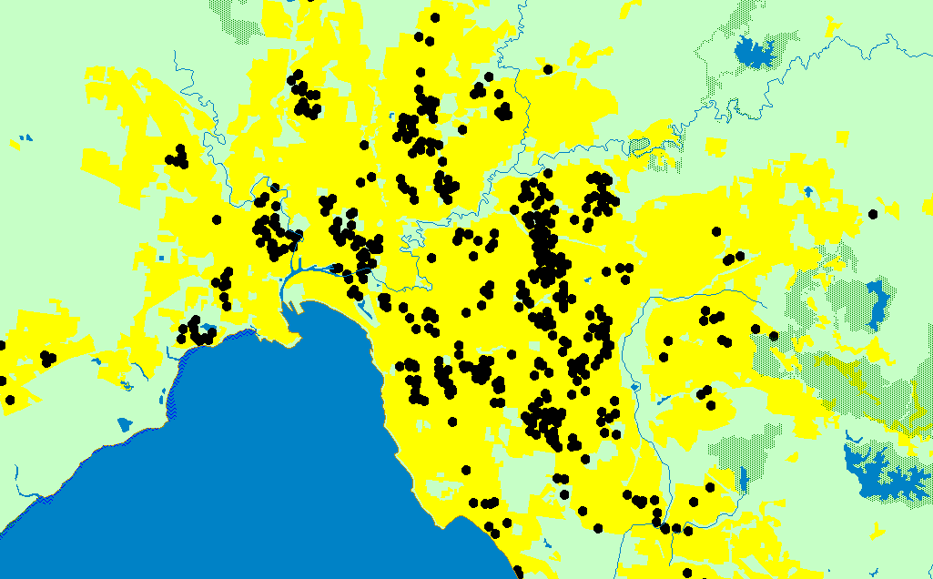 PRC-born residents in Melbourne, 2006 (one dot equals 100 such residents in a collection district)